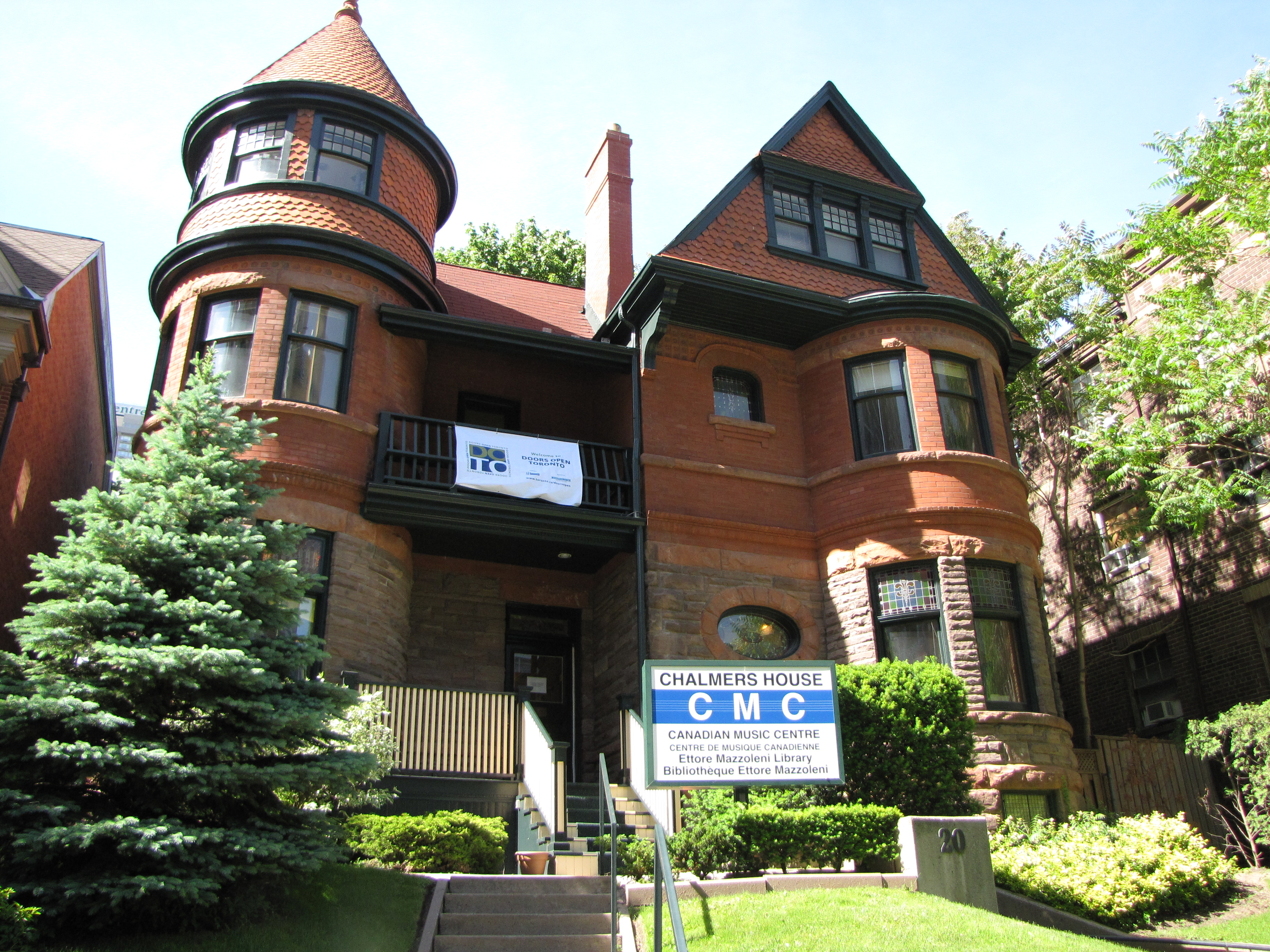 Chalmers House, the headquarters of the Canadian Music Centre, on St. Joseph Street in Toronto, Ontario, Canada.